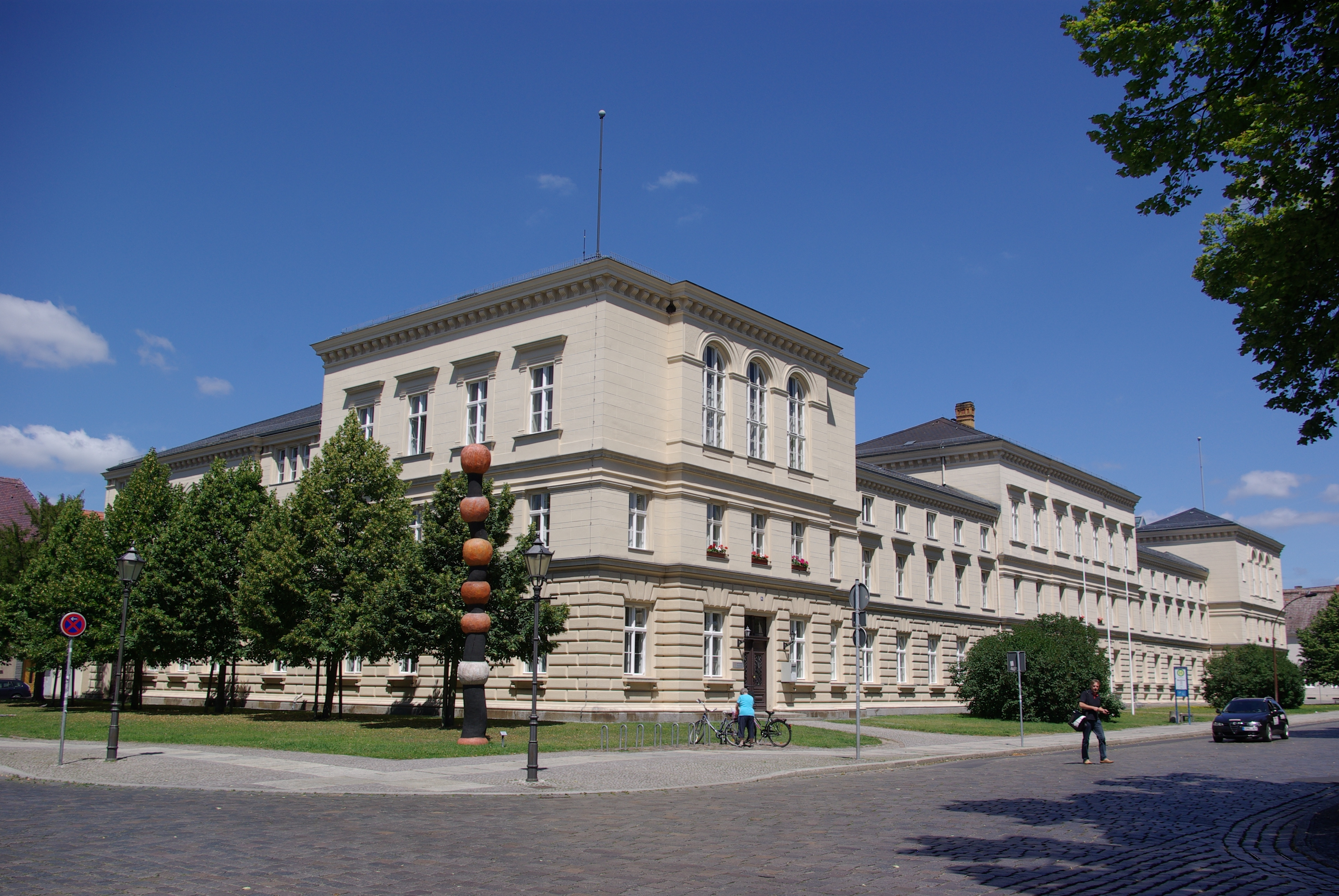 Neuruppin in Brandenburg. The house Karl-Marx-Straße 18a is a listed building.